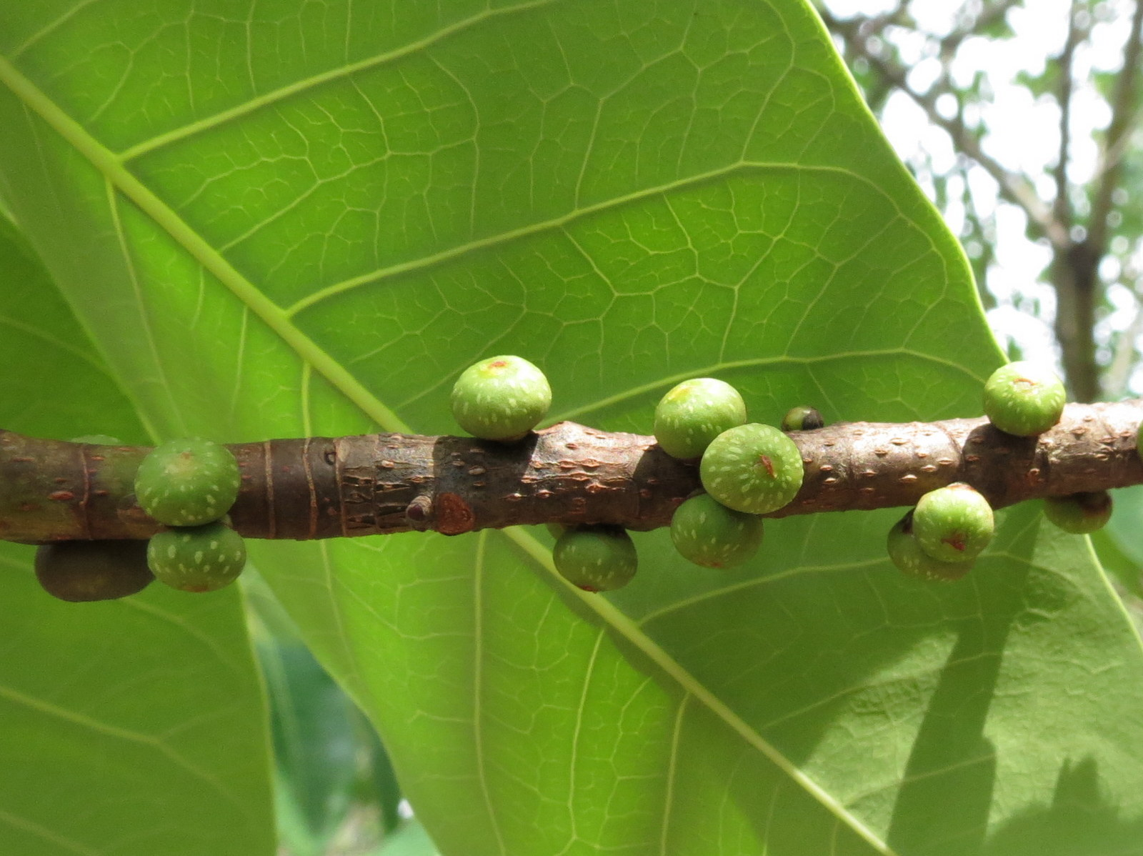 Ficus Tsjahela seen in Nilgiri Biosphere Nature park, Anaikatty Coimbatore.